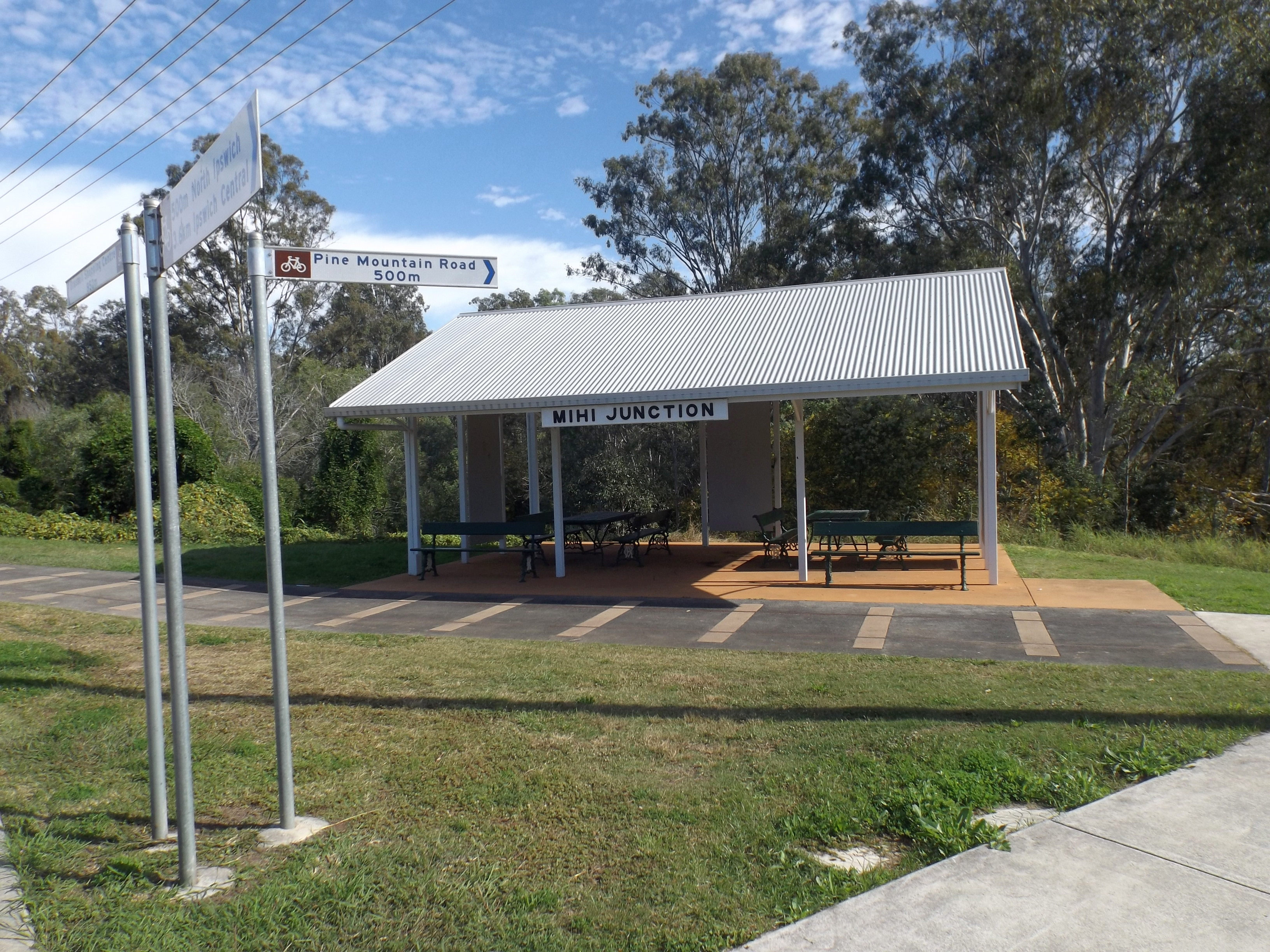 Photo of visitor facilities at Mihi Junction, Brassall, Ipswich, Queensland, Australia. The park is part of the Mihi Creek heritage site listed on the Queensland Heritage Register.